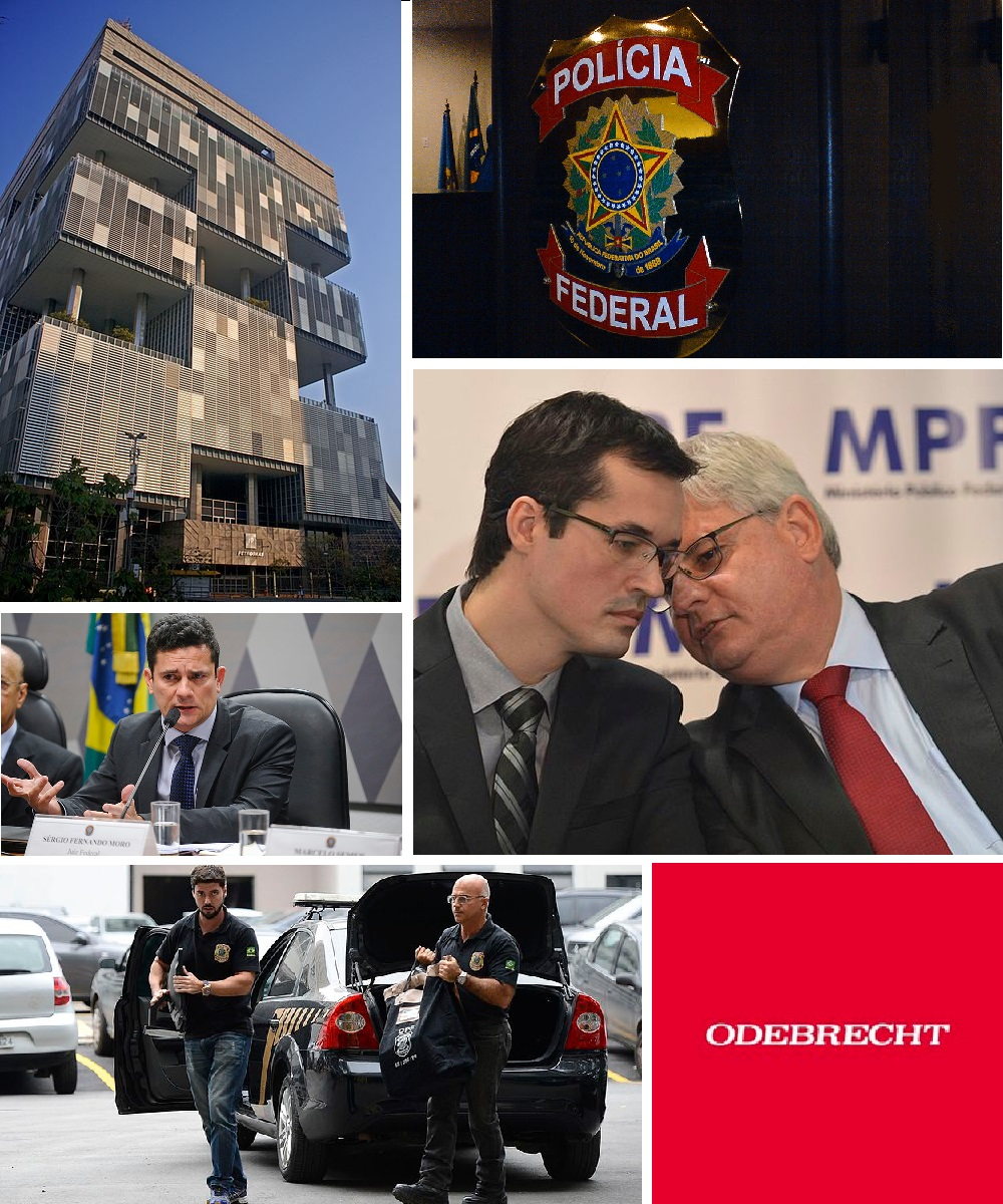 Composite image